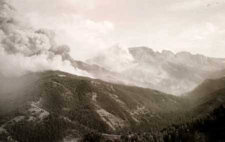 Blackwater fire of 1937 in Shoshone National Forest, Wyoming